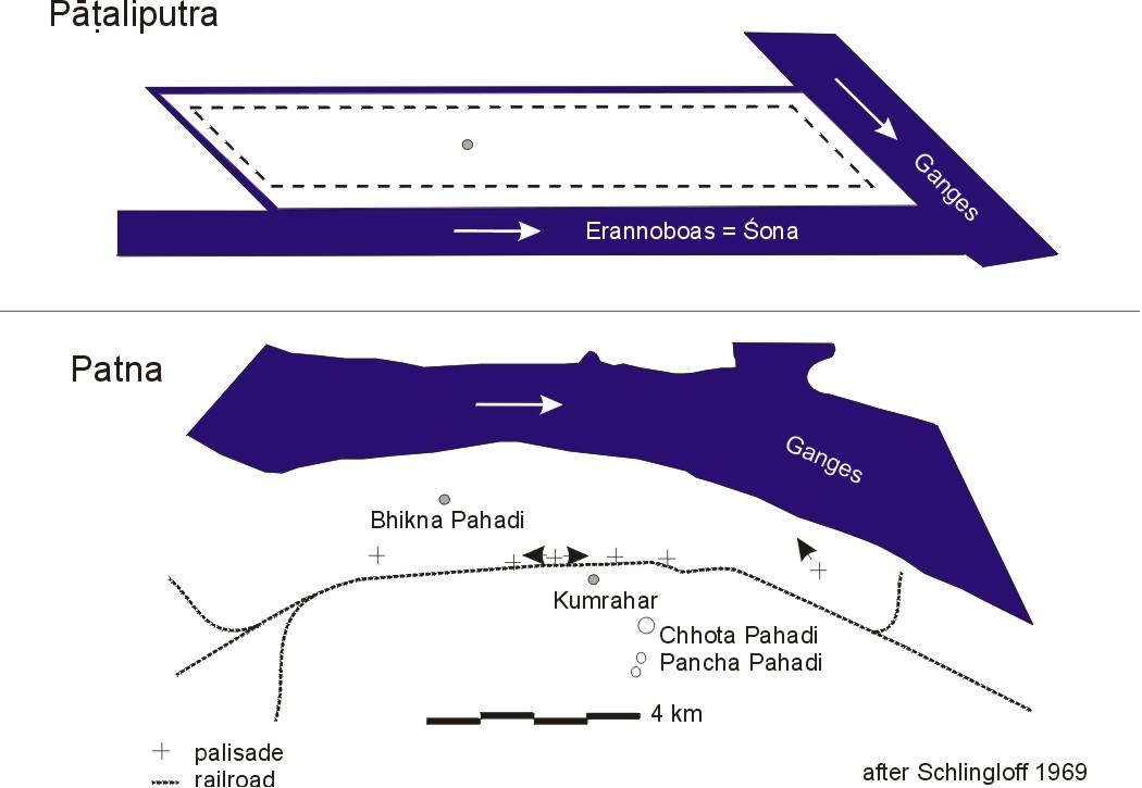 Ideal plan of Pataliputra after Megasthenes and Mahabhasya (above), archaeological sites in Patna (below).